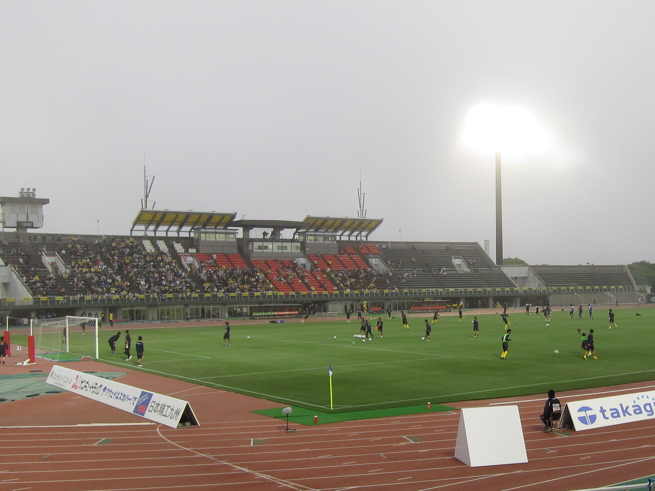 Honjo Stadium